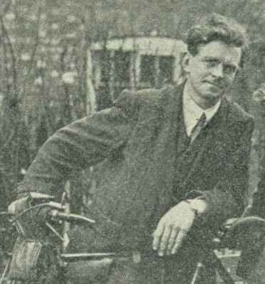 Hugh Lawrie, official of the Workers' Union and future Member of Parliament, in 1916